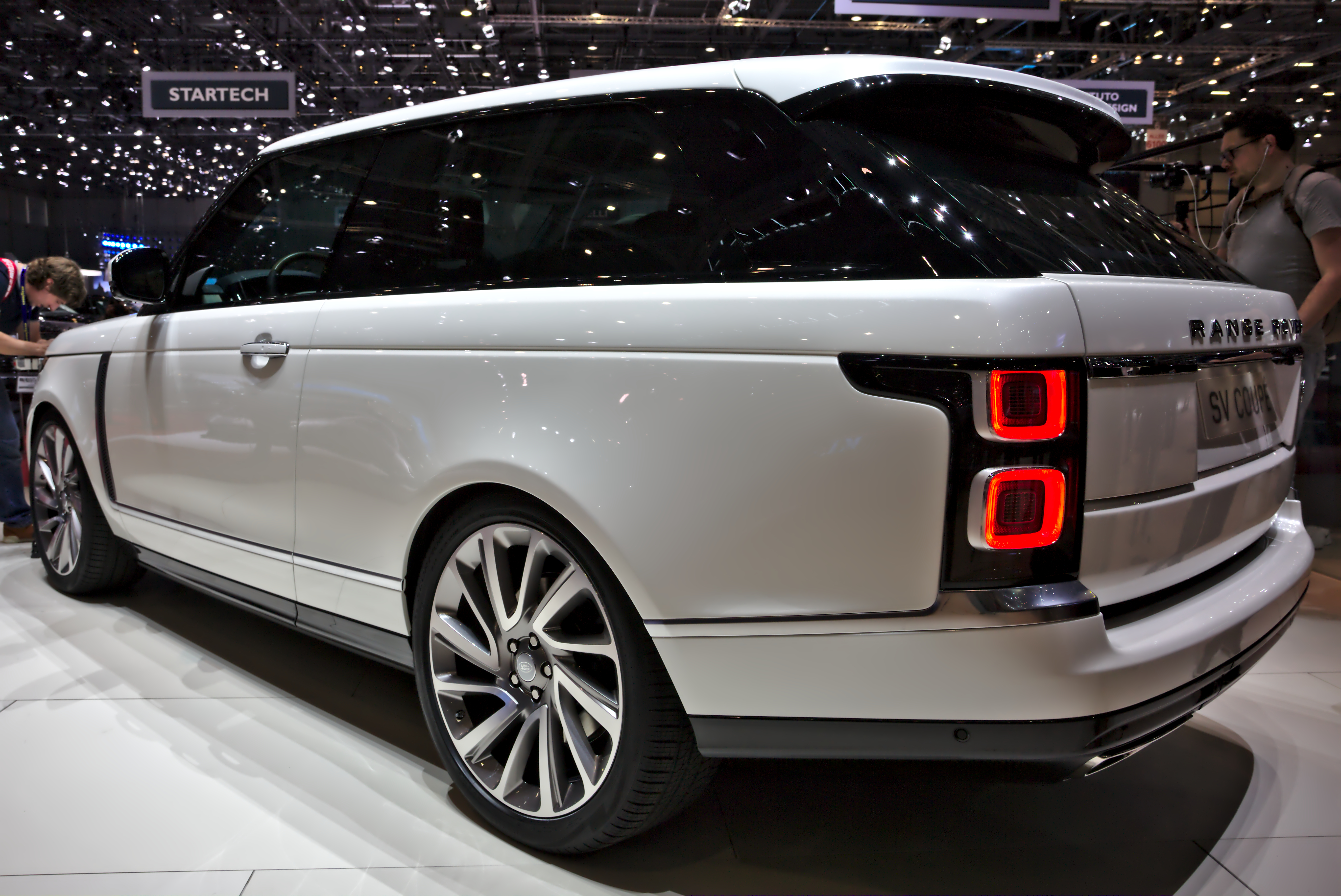 Range Rover SV Coupe at Geneva Motorshow 2018